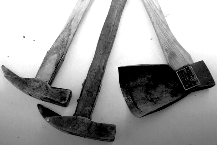 Hammers used by Danish carpenters. This file was made by B. M. Askholm, Please credit this: B. Askholm foto, 2006 An email to B. Mathias at baskholm(--) would be appreciated too.